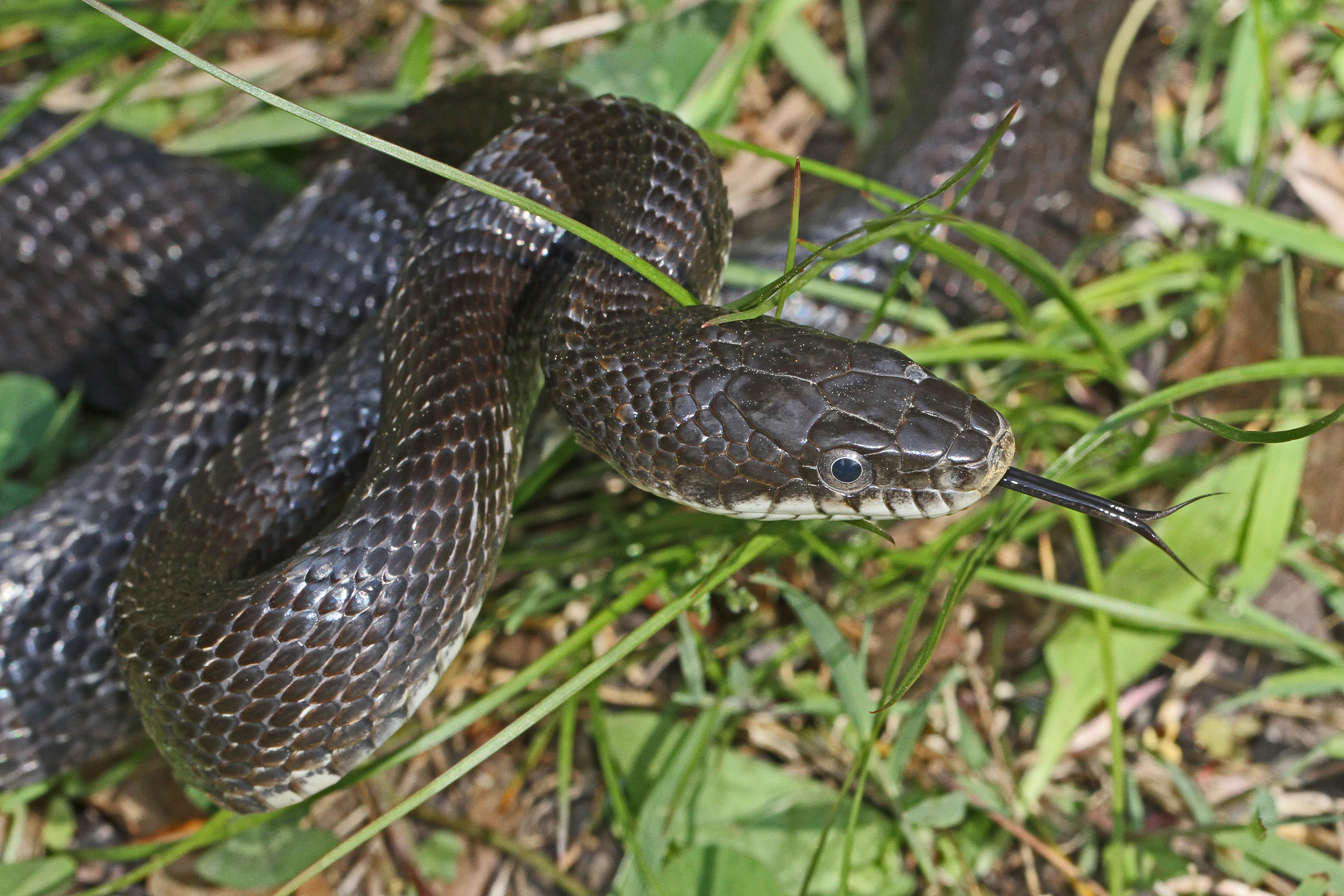 Black Rat Snake - Elaphe obsoleta obsoleta, Merrimac Farm Wildlife Management Area, Virginia